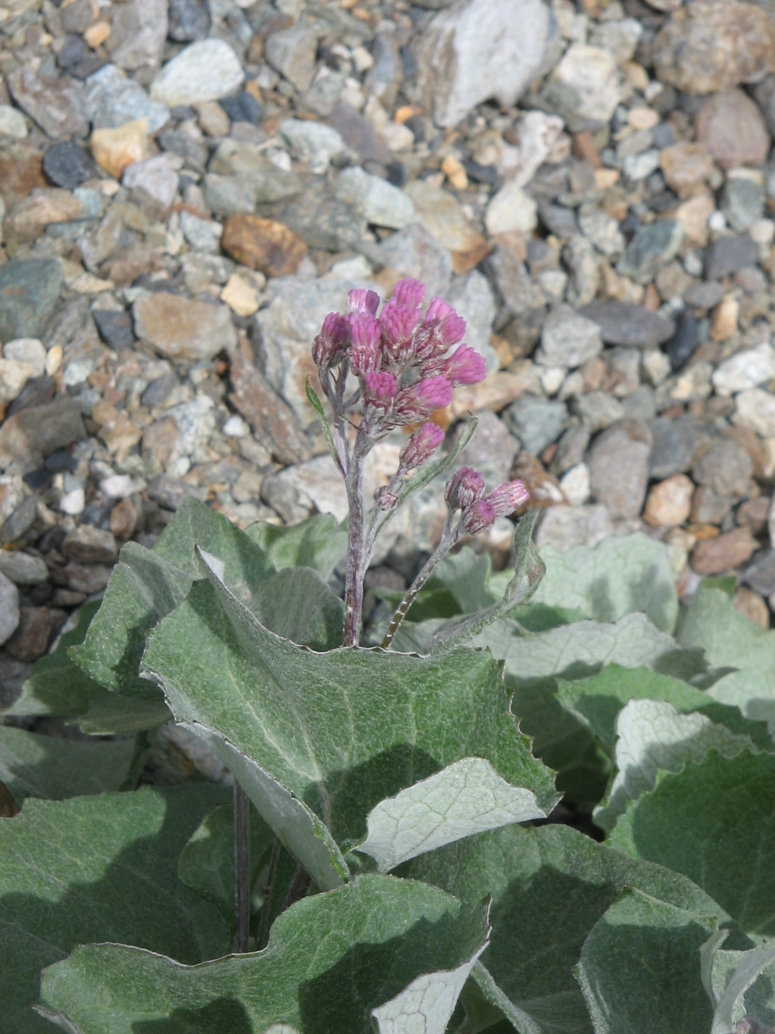 Adenostyles leucophylla